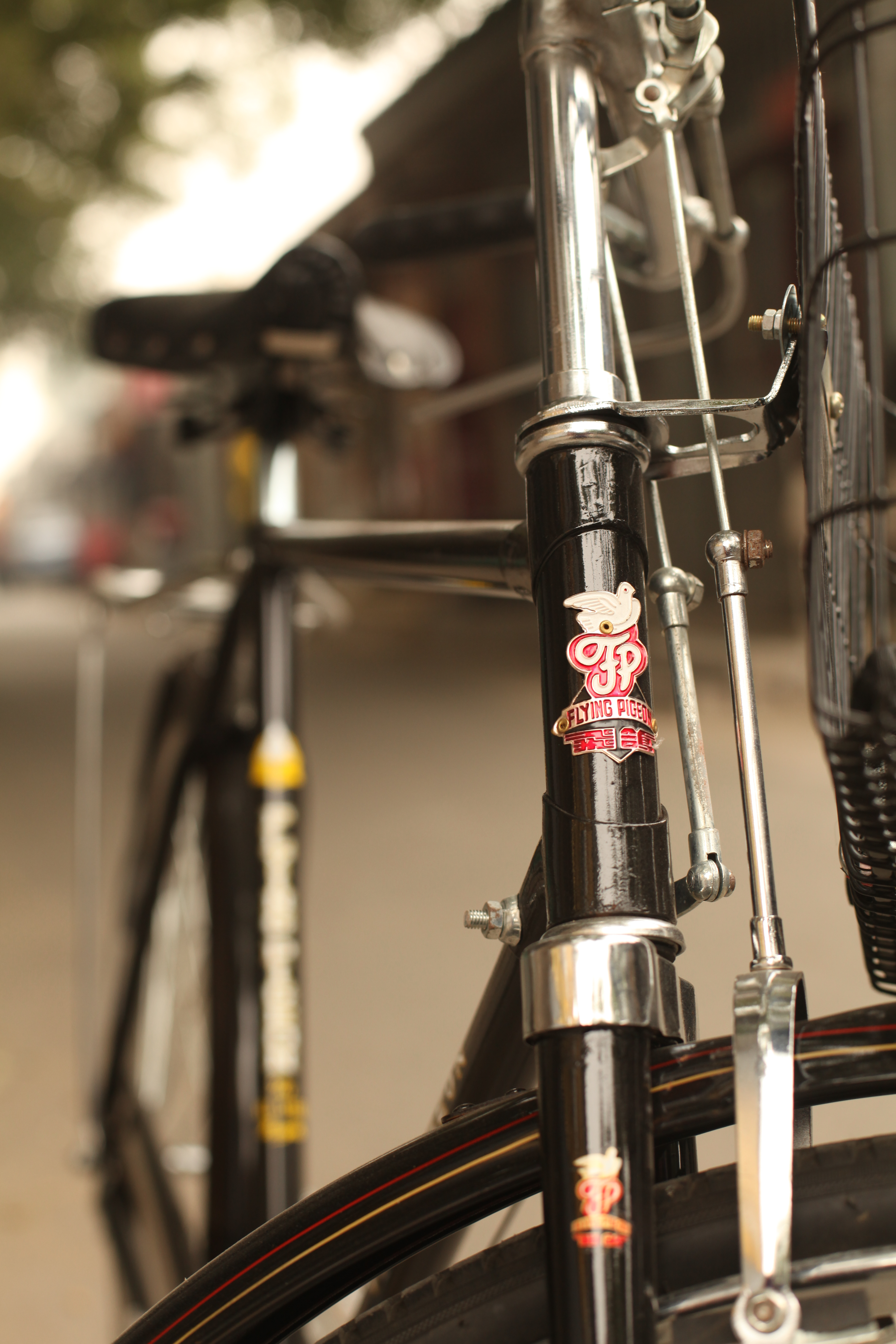 website 回 twitter 回 facebook